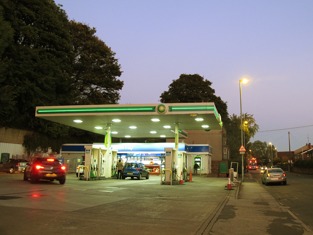 BP filling station, Pudsey Road. Since 2007 this has become a BP station; it was a Total station, see File:BP filling station, Pudsey Road (geograph 4680793).jpg